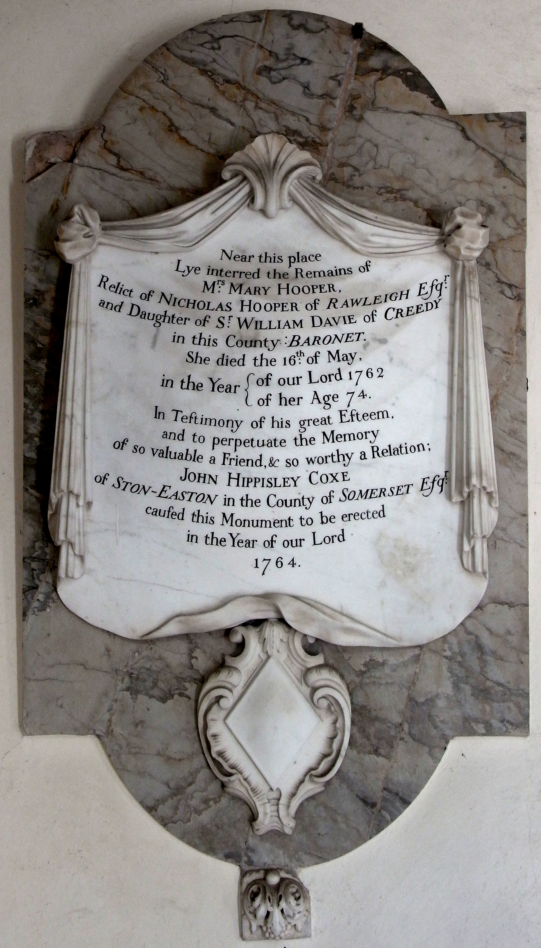 Mural monument in Sandford Church, Devon, to Mary Davie (1688-1762), a daughter of Sir William Davie, 4th Baronet (1662–1707), of Creedy, in the parish of Sandford, who married Nicholas III Hooper (son of Sir Nicholas II Hooper (1654-1731) of Fullabrook,[1] Braunton[2] and Raleigh, Pilton in Devon, a lawyer who served as Tory Member of Parliament for Barnstaple 1695-1715), who rebuilt Raleigh House on an adjacent site slightly higher up the hill, which building survives today.[3] Without progeny. Mary Davie (Mrs Hooper) was the heiress of Downside, in the parish of Midsomer Norton in Somerset, inherited from her mother Mary Steadman, which she settled on John Hippisley-Coxe (1715-1769),[4] the builder of Ston Easton House in Somerset, the husband of her half-niece Mary Northleigh (daughter and heiress of Stephen Northleigh (c.1692-?1731) of Peamore, Exminster, MP for Totnes (1713-1722),[5] by his wife Margaret Davie, half-sister of Mary Davie (Mrs Hooper)). John Hippisley-Coxe erected the surviving mural monument to Mary Davie in Sandford Church, inscribed as follows: "Near this place lye interred the remains of Mrs.[6] Mary Hooper, relict of Nicholas Hooper of Rawleigh Esqr. and daughter of Sr. William Davie of Creedy in this county, Baronet. She died the 16th of May in the year of our Lord 1762 (in the year) of her age 74. In testimony of his great esteem and to perpetuate the memory of so valuable a friend & so worthy a relation, John Hippisley Coxe of Ston-Easton in the county of Somerset Esqr. caused this monument to be erected in the year of our Lord 1764"